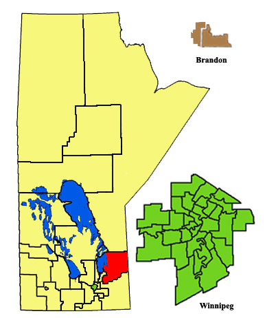 The 2011- provincial electoral boundaries for Lac du Bonnet.